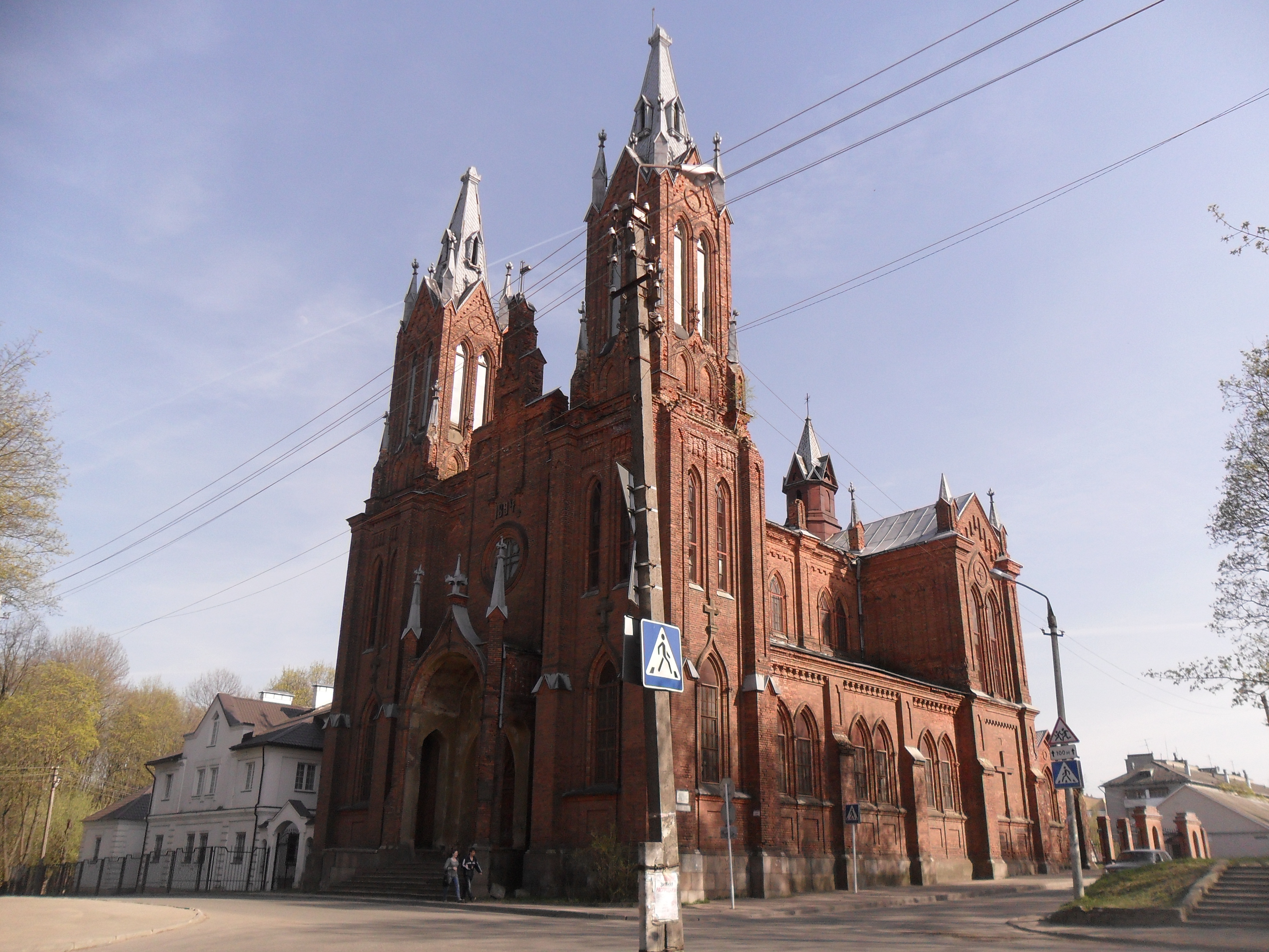 Smolensk Catholic church. View from the junction of Uritsky and Pamfilov streets.